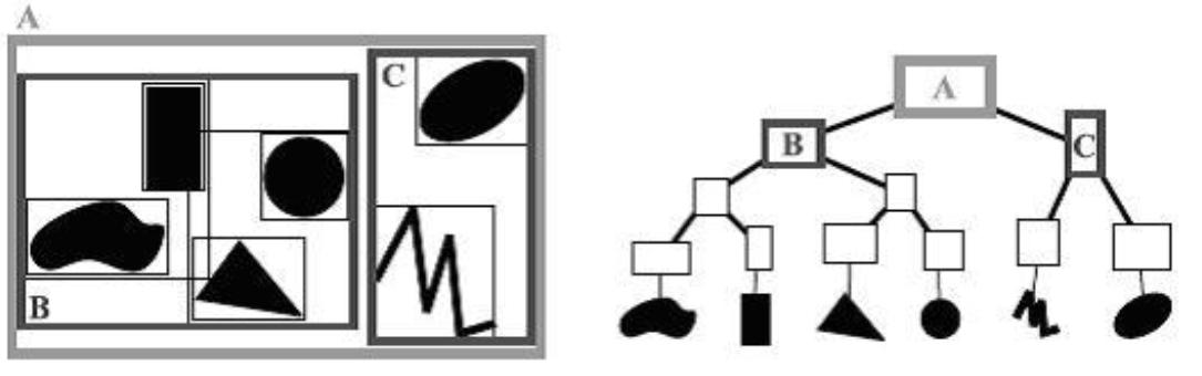 Example of bounding volume hierarchy (BVH) in two dimensions, where bounding volumes are AABB